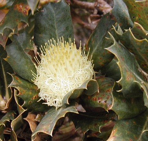 Cape Naturaliste October 05 Photo Cas Liber